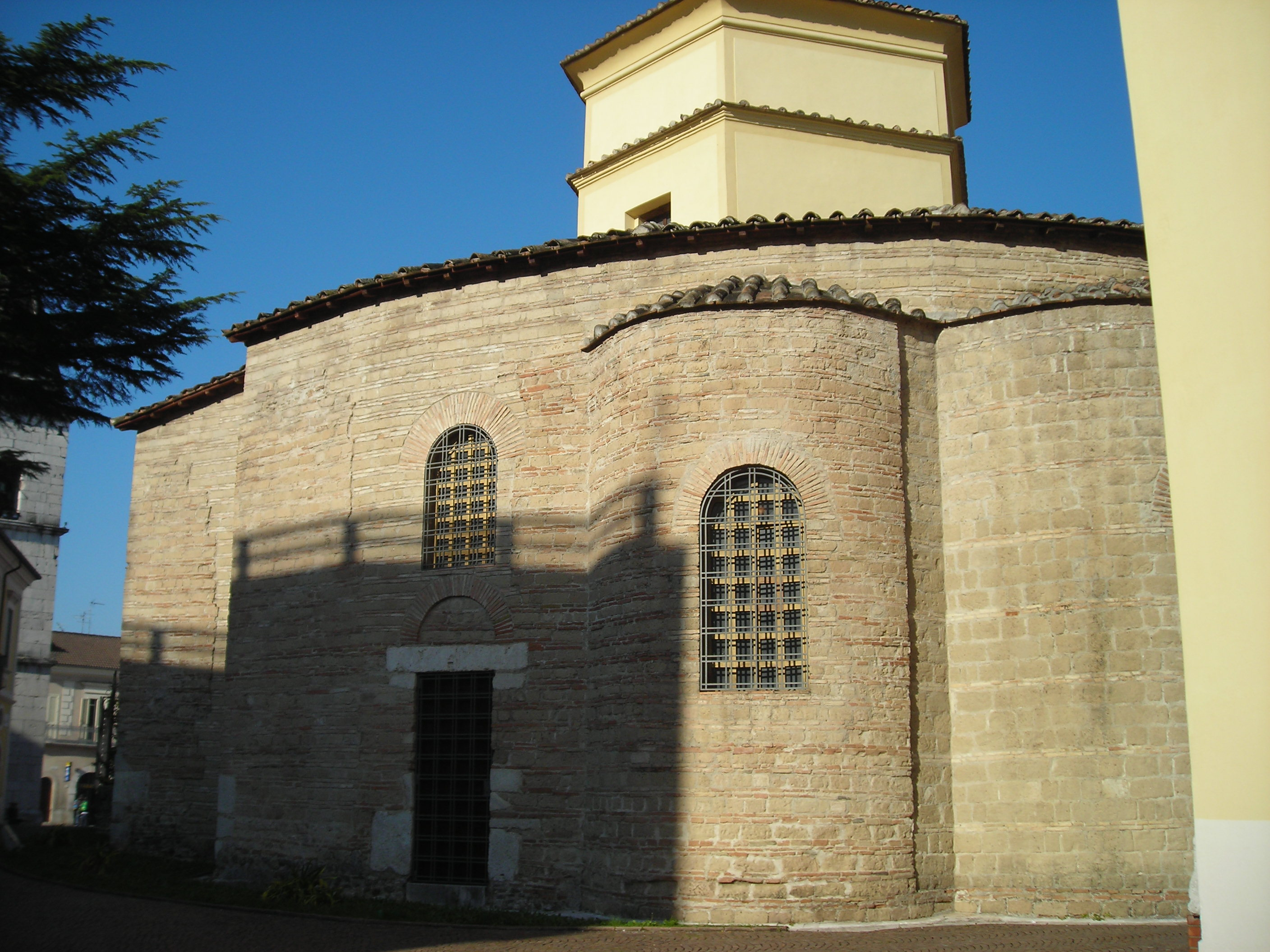 The apse of the Church of Santa Sofia, Benevento, Italy